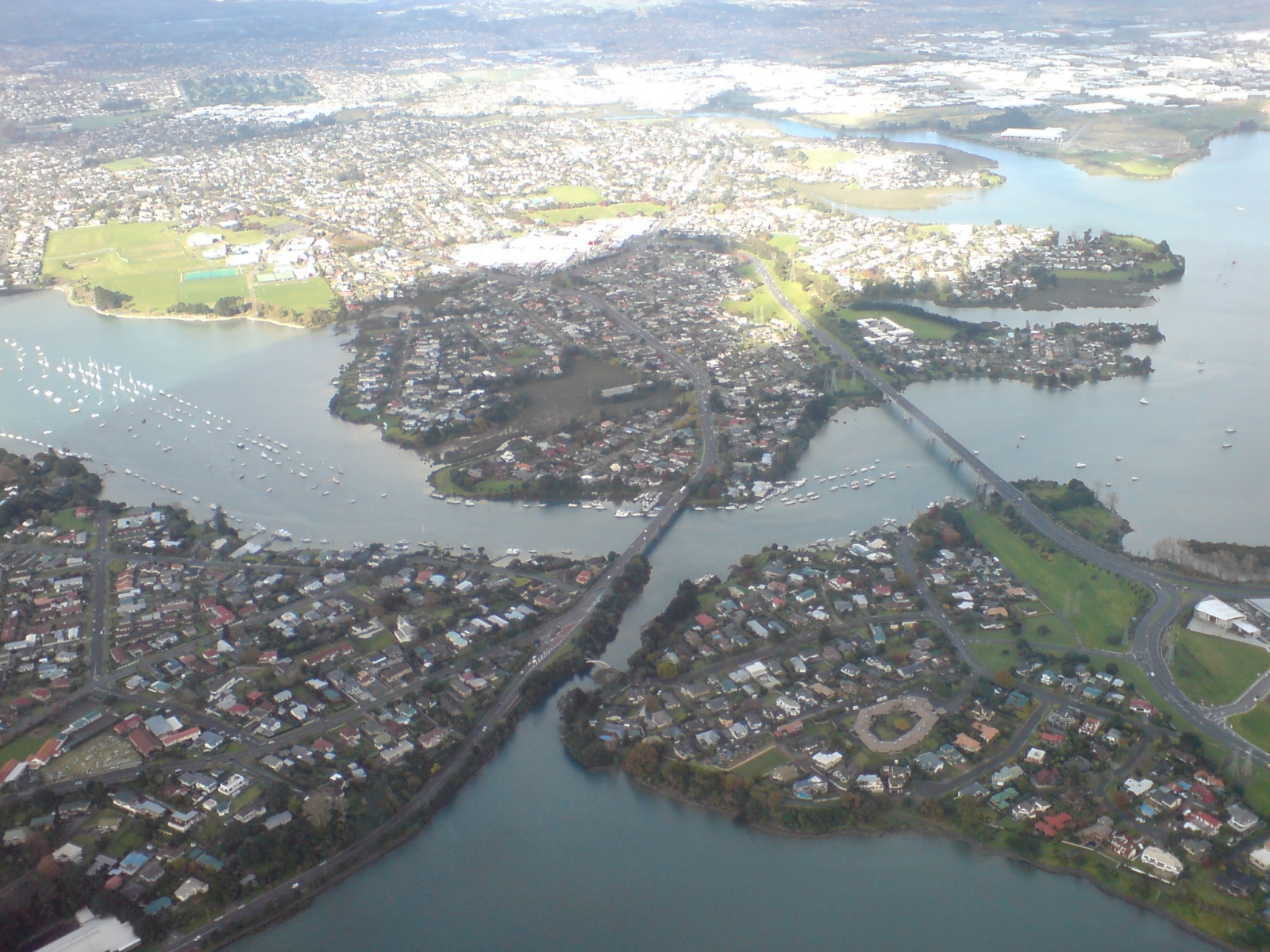 The bridges over the Tamaki River, an estuary between Auckland City and Manukau City in New Zealand. Looking eastwards from a light plane to Great Barrier Island.